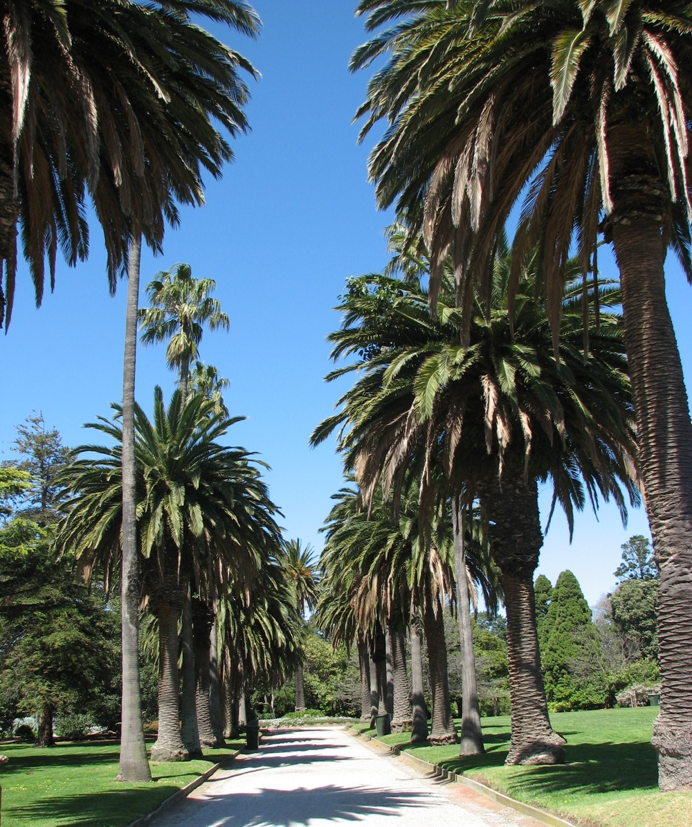 Palm-lined path in St Kilda Botanic Gardens, Victoria, Australia